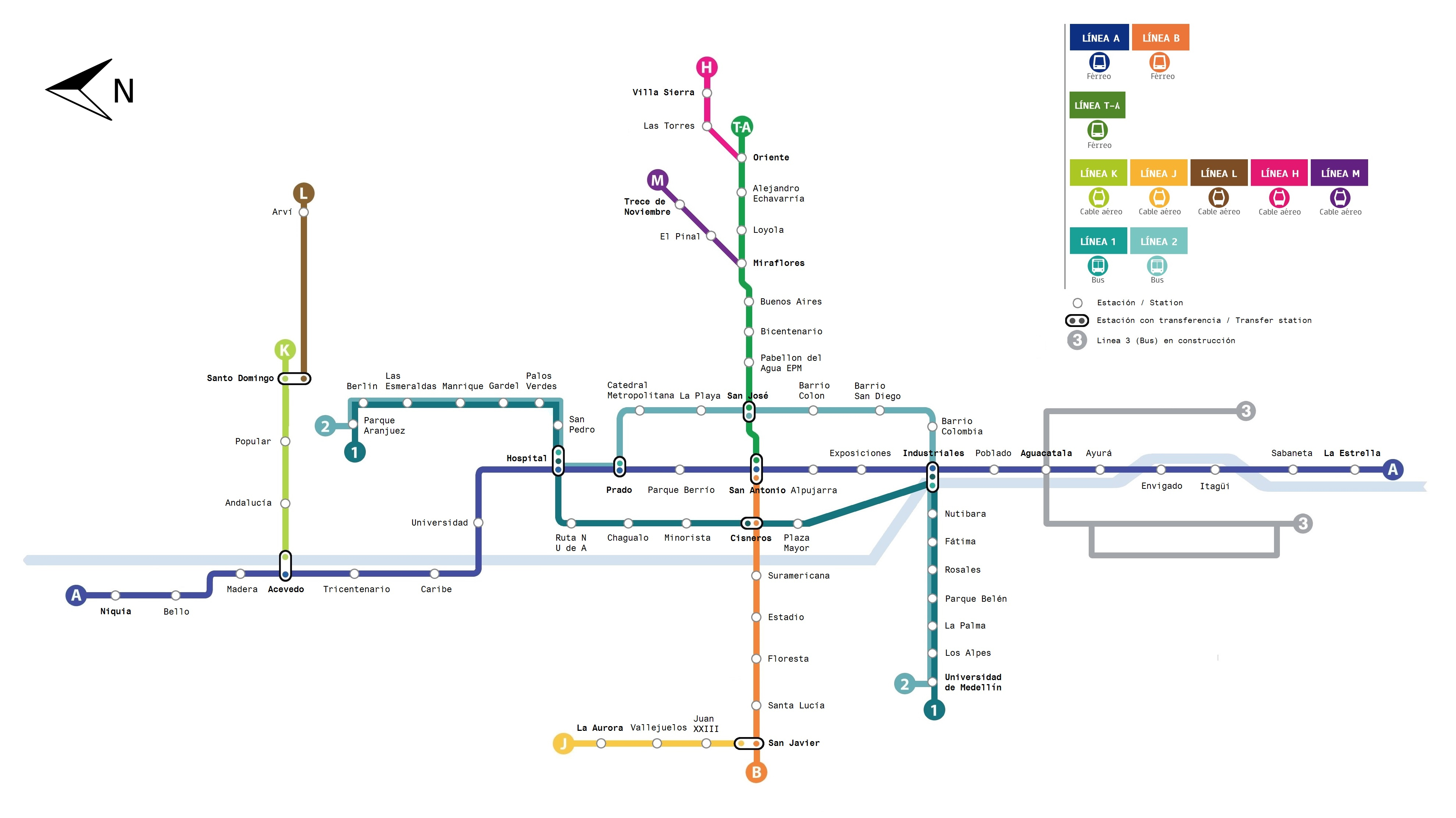 Mapa del Sistema de Transporte Masivo del Valle de Aburra 2016